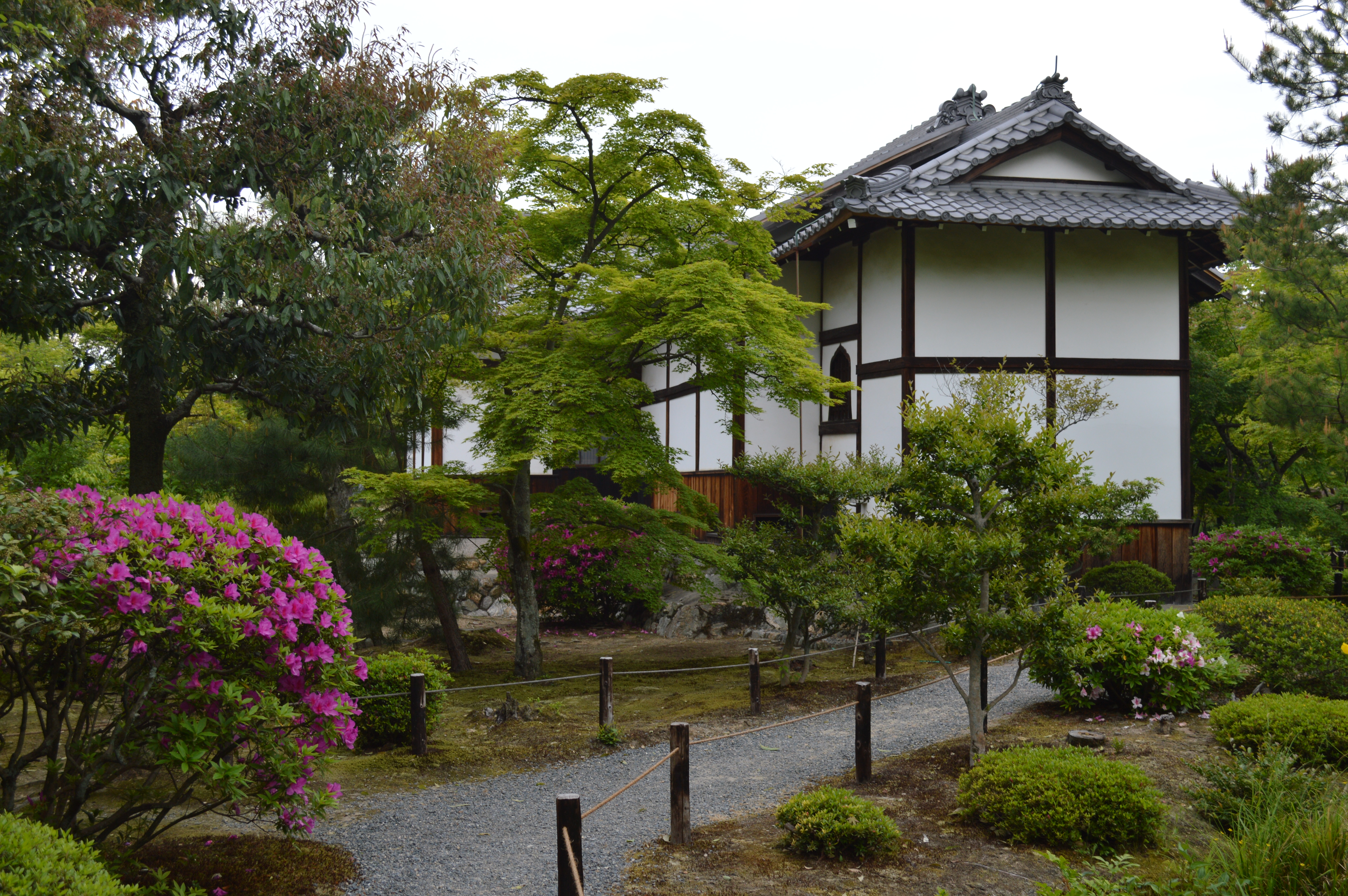 Tōji-in, The Reikō-den (霊光殿)